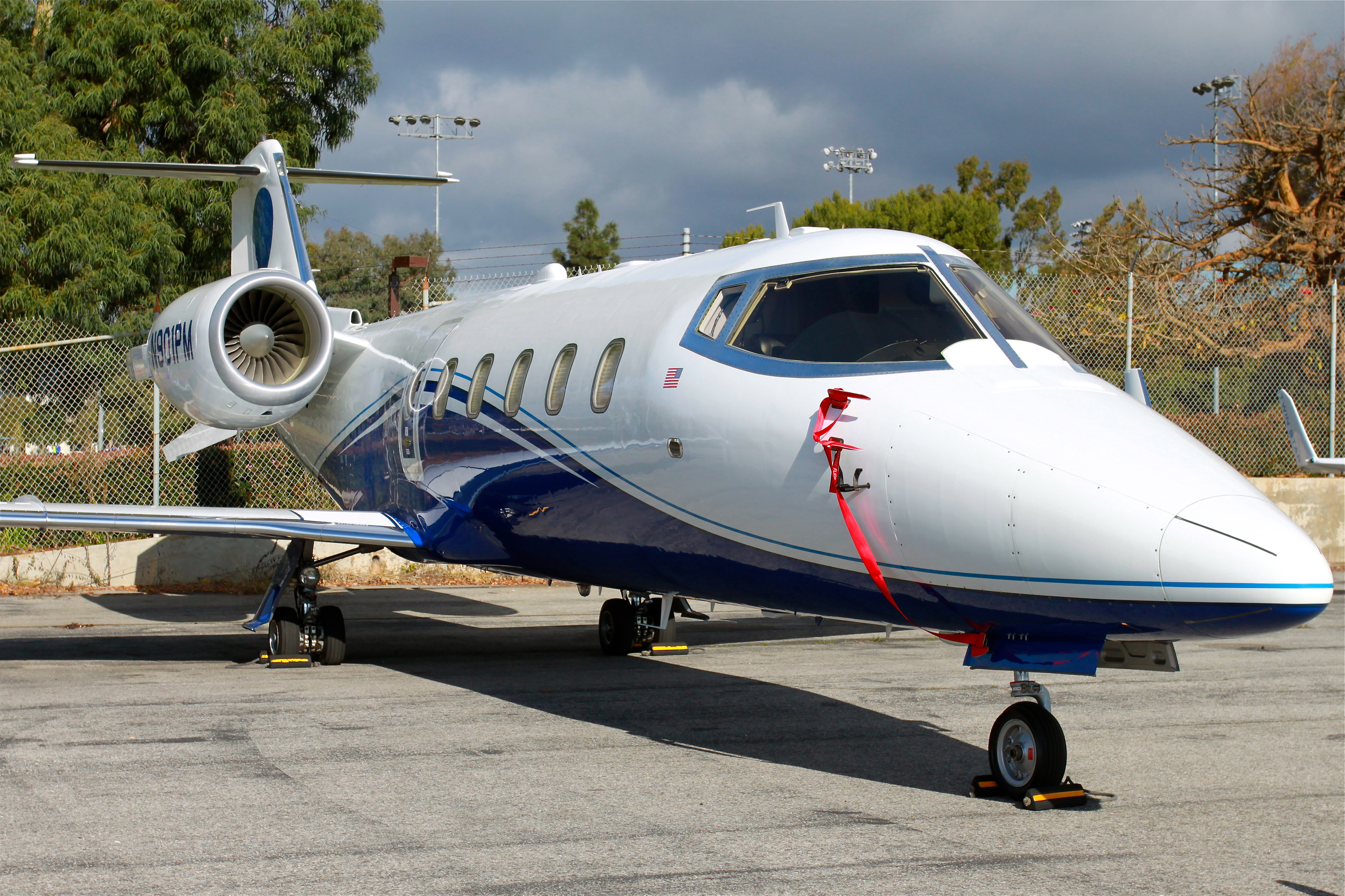 N901PM at SMO before heading to Las Cabos.